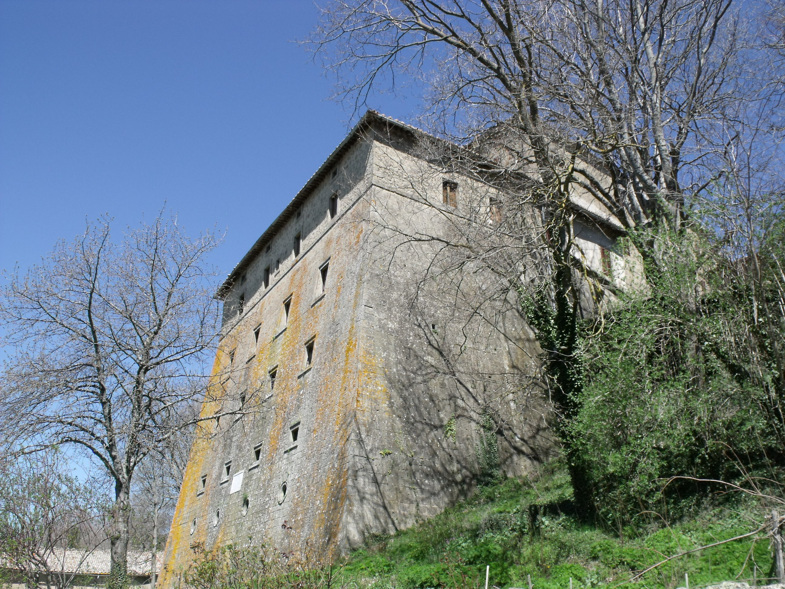 Eremo del Vivo (Palazzo Cervini) in Vivo’Orcia, hamlet of Castiglione d’Orcia, Val d’Orcia Area, Province of Siena, Tuscany, Italy